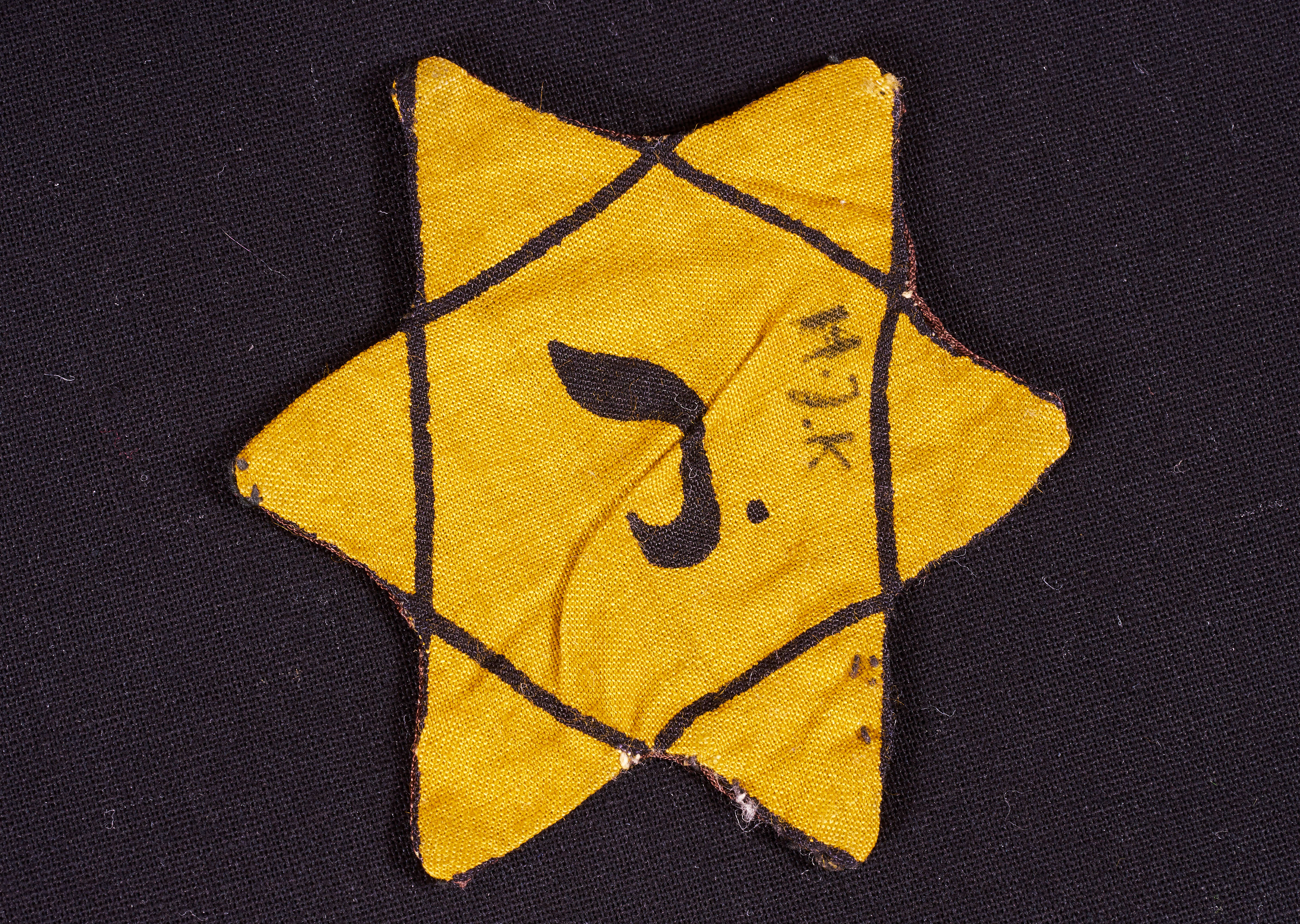 Belgian version of the Yellow Badge, compulsory from 1942. It depicts a black letter "J" (standing for "Juif" in French and "Jood" in Dutch) in the center of a yellow star of David. Because there was not enough space to write the word "Jew" in Belgium's two languages, the yellow star was marked only with the letter "J" to stigmatize the Jew wearing it. Included are the initials of the owner of the yellow badge, who wrote this after the war on his star. Coll. J. Kutner, Kazerne Dossin, Mechelen This star was in possession of Jos Kutner, born on 13/02/1911 in Antwerp, Belgium. He was not deported. A lot of family members were deported : - His father Israël Ziskind KUTNER - his brothers Marcel Georges and Godolias KUTNER None of them survived. This is a file created at the museum: Kazerne Dossin Memorial in Mechelen